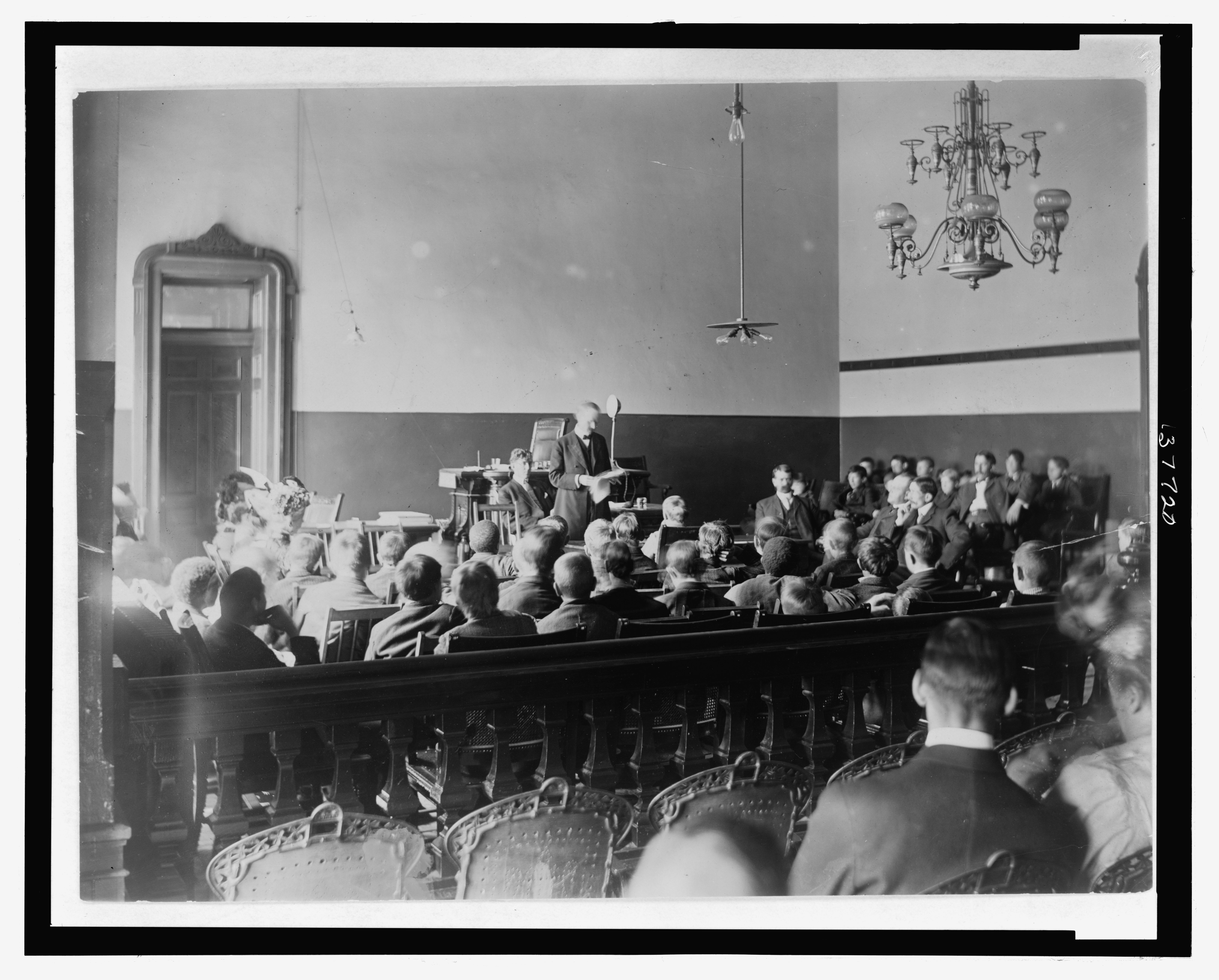 Title: How the kids make their reports to the judge every Saturday morning Abstract/medium: 1 photographic print.